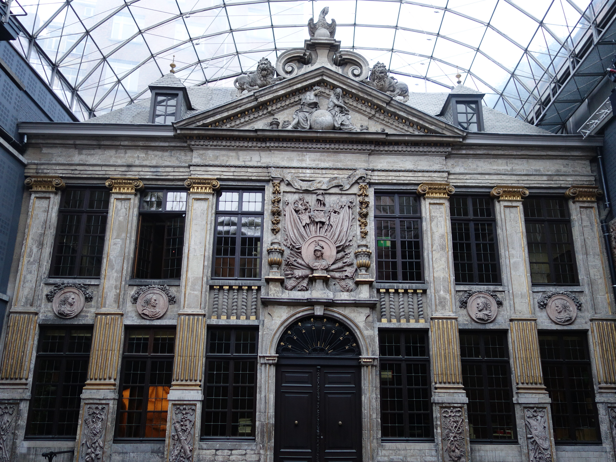 Brussels